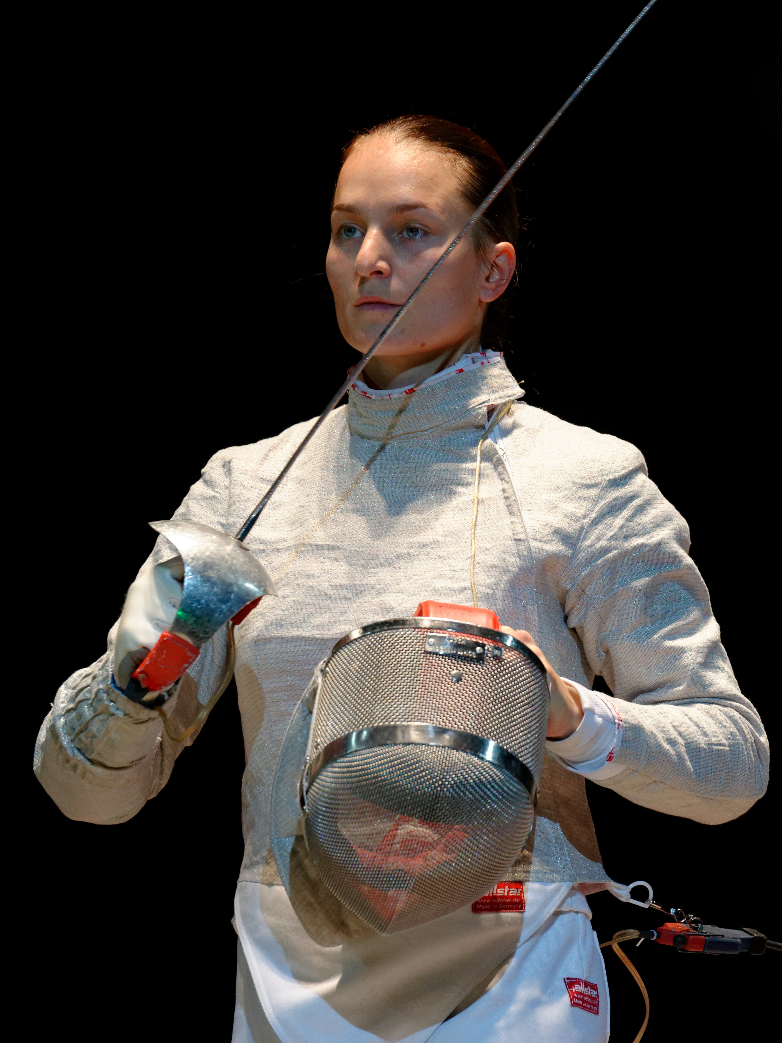 Sofiya Velikaya of Russia during the final against France in the women's team sabre event at the European Fencing Championships at Rhénus Sport in Strasbourg on 13 June 2014.